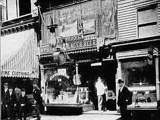 Photograph of Steve Brodie's Bar at 114 Bowery, New York City, owned by Steve Brodie (1861-1901), famed for supposed jump from the Brooklyn Bridge in 1886.